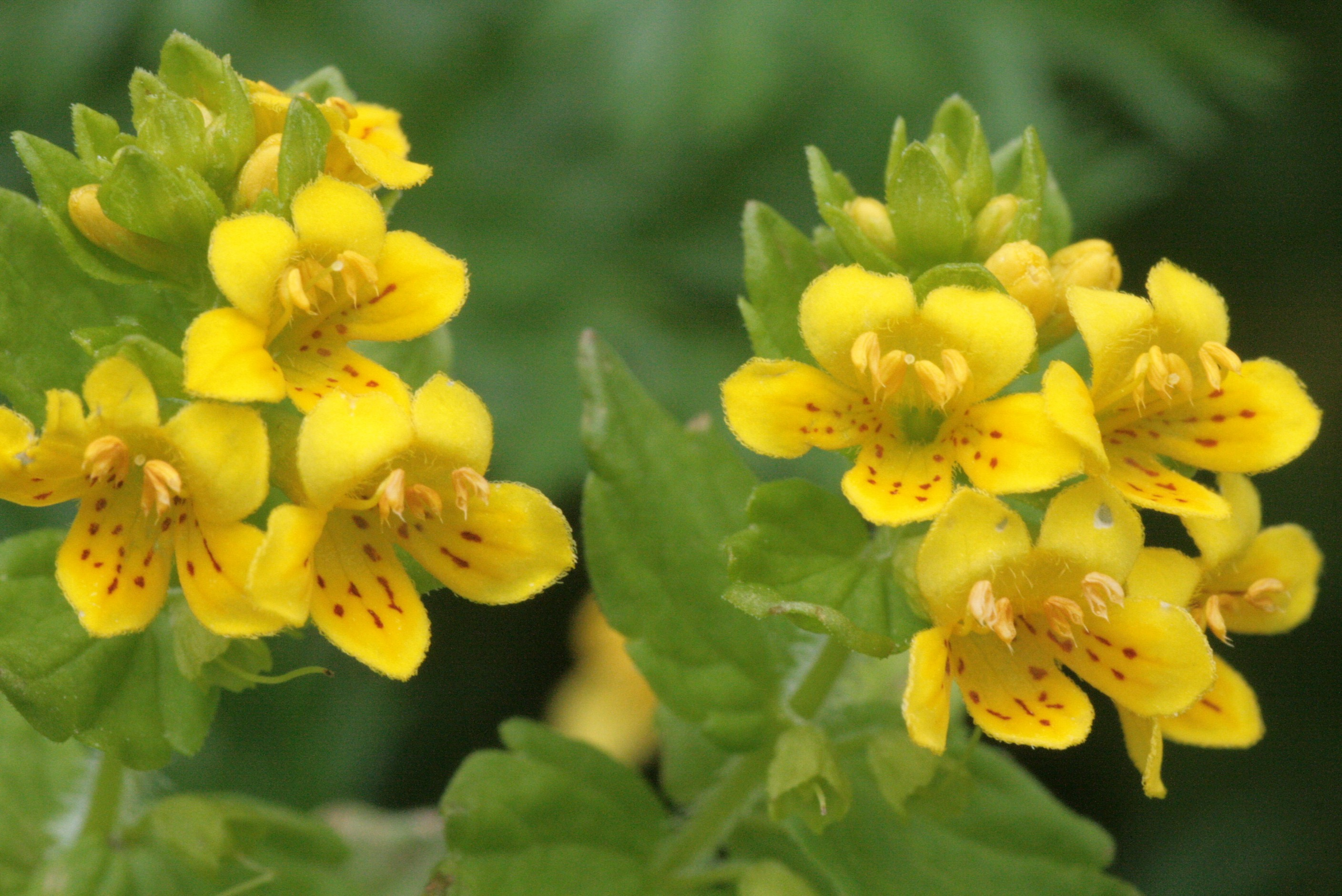 Tozzia alpina